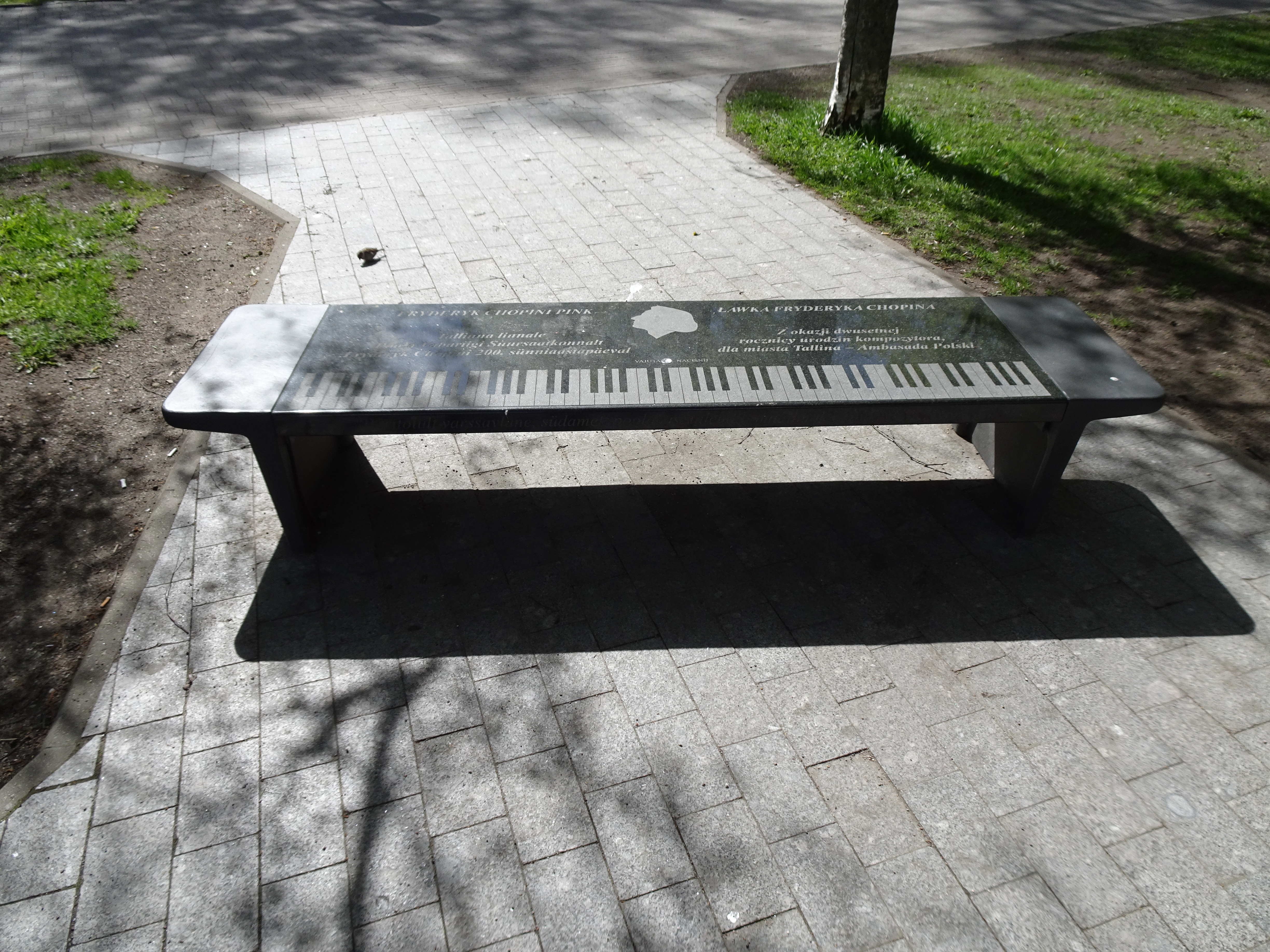 Chopin Bench in Tallinn, Estonia